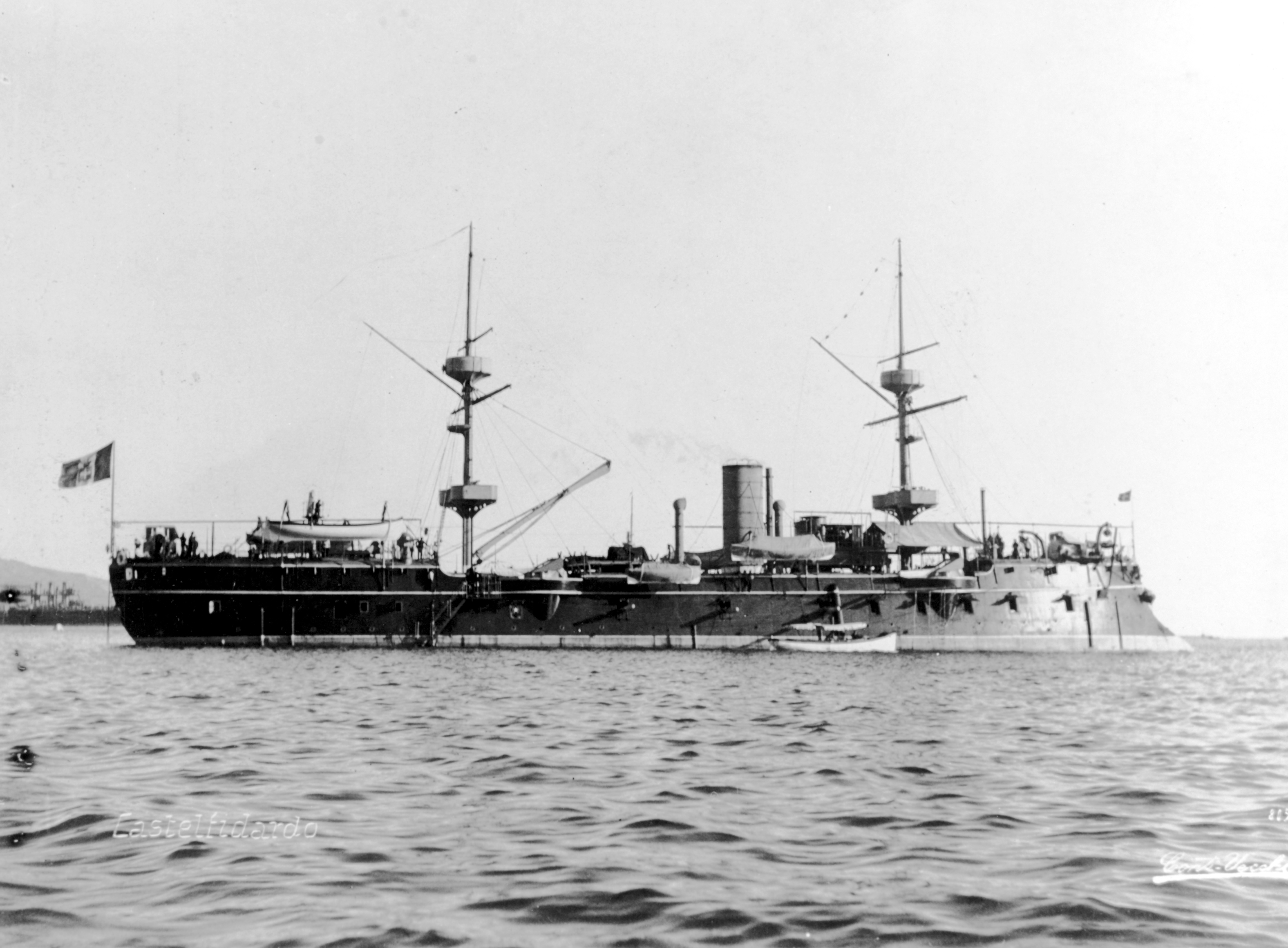 Title: CASTELFIDARDO (Italian armored ship, 1863) Caption: Photographed by Conti Vecchi, showing the ship as modernized in the 1880s. Description: Farenholt Collection. Original at NHDC, 1968.)